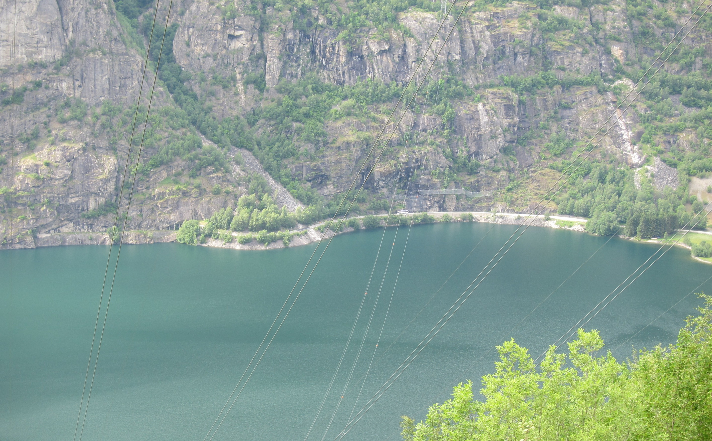 Fylkesveg 50 (road 50), passing Vassbygdvatnet lake in Aurland, Sogn og Fjordan, as seen from Låvisberget